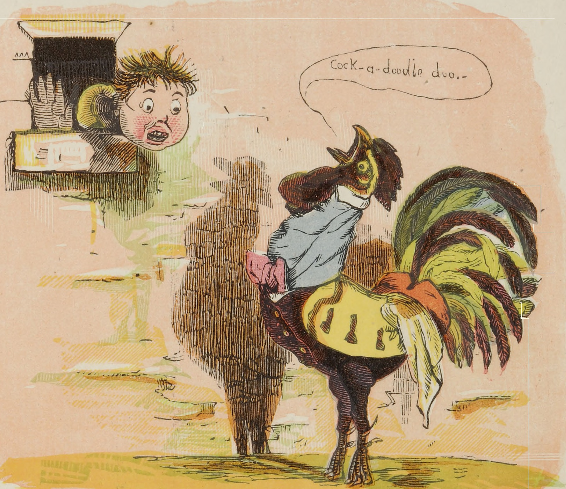 Title: Rhymes without reason Year: 1864 (1860s) Authors: Hurd & Houghton,publisher Subjects: Nonsense verses. Juvenile literature -- New York (State) -- New York -- 1864 . Nonsense verse -- New York (State) -- New York -- 1864 . Chapbooks -- Specimens. Chapbooks -- New York (State) -- New York -- 19th century McGill University Library Digitized Title McGill Library's Chapbook Collection Nonsense verses Chapbooks Publisher: (New York) : Hurd & Houghton, 401 Broadway, N.Y. Text Appearing Before Image: RHYMES WITHOUT REASON. GRAND PAP A LITTLE BOY. L AST night, when I was in my bed, Such fun it seemd to me;I dreamt that I was Grandpapa,And Grandpapa was me. I thought I wore a powder1 d wig,Drab shorts, and gaiters buff; And took, without a single sneeze,A double pinch of snuff. And I went walking up the street, And he ran by my side;But, because I walkVl too quick for him, My goodness, how he cried! And after tea I washd his face,And, when his prayers were said, I blew the candle out, and leftPoor Grandpapa in bed. RHYMES WITHOUT REASON. Text Appearing After Image: COCK-A-DOODLE-DOO. A LITTLE Boy got out of bed, Twas only six oclock ;And out of window poked his head,And spied a crowing Cock. t RHYMES WITHOUT 11EASON. The little Boy said, Mr. Bird, Pray tell me, who are you ?And all the answer that he heard Was, Cock-a-doodle-doo ! V What would you think, if you were me lie said, and I were you VBut still that Bird, provokingly Cried, Cock-a-doodle-do ! How many times, you stupid-head, Goes three in twenty-two ? That old Bird winkd one eye, and said,Just Cock-a-doodle-doo ! He slanimd the window down again, When up that old Bird flew;And, pecking at the window-pane, Cried, Cock-a-doodle-doodle-doodle-doo! KHYMES WITHOUT REASON.